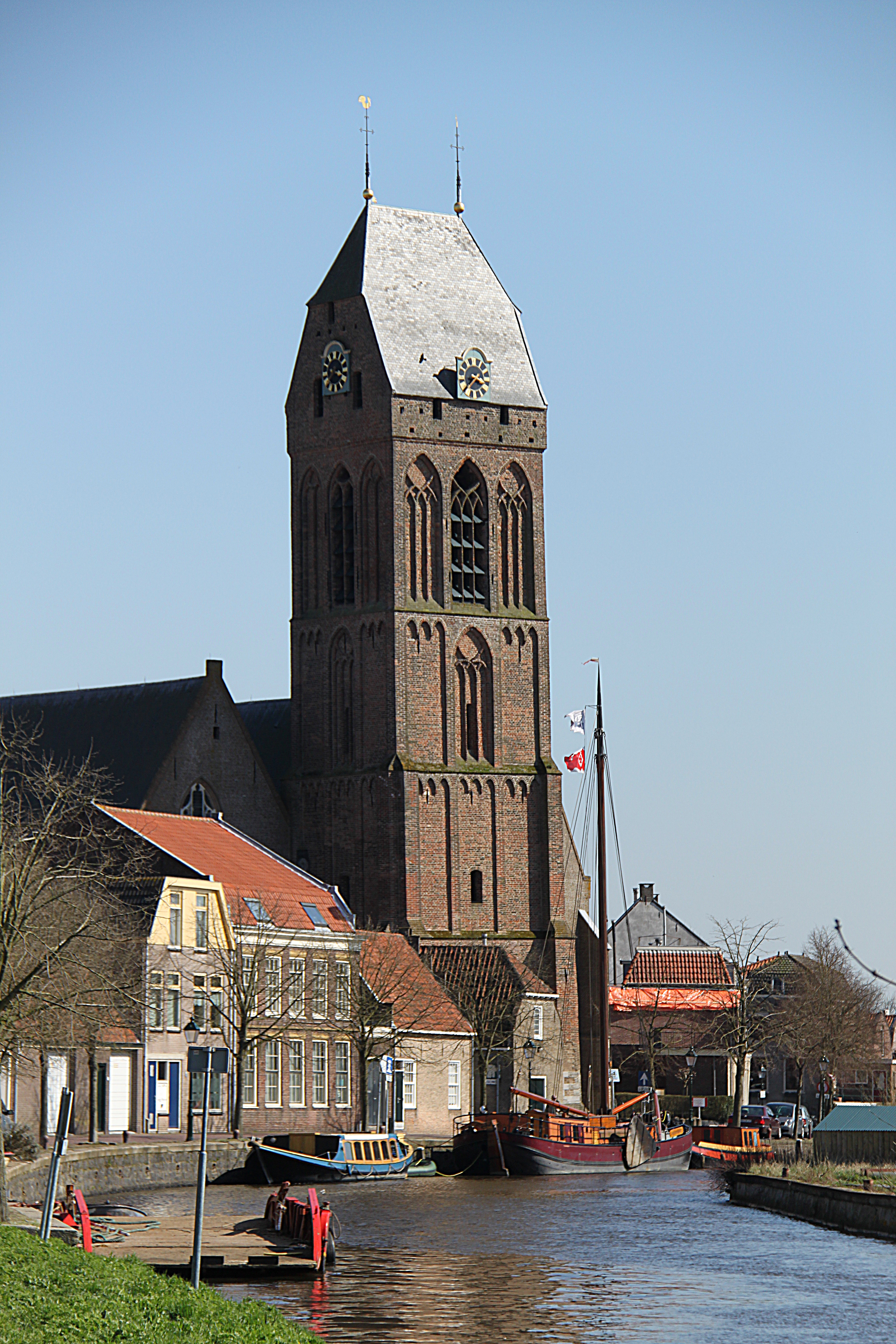 Tower of the Church of St. Michael at Oudewater in the Netherlands, a building that dates back to the 14th century.